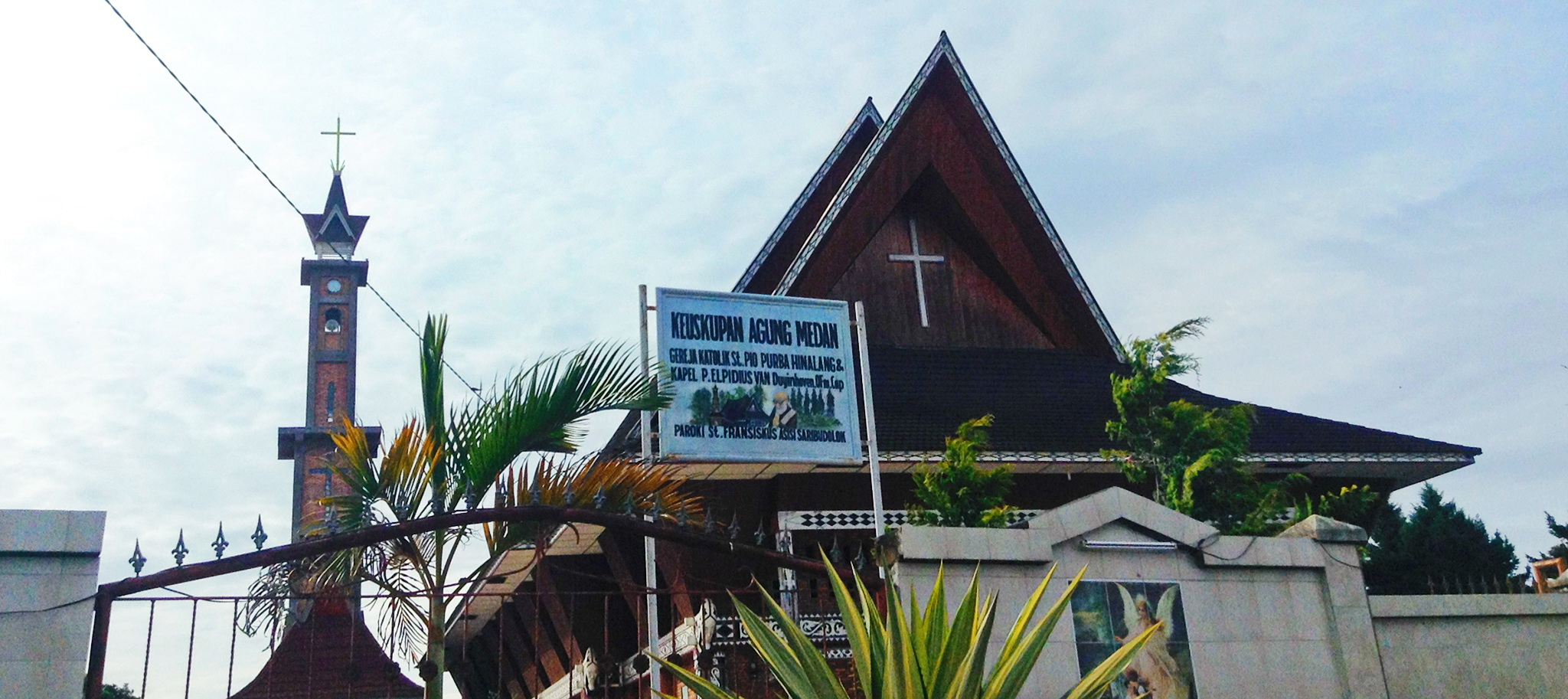 Santo Pio Purba Hinalang Catholic Church